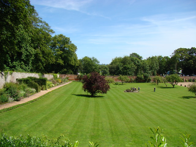 Walled garden at Strathtyrum House Walled garden at Strathtyrum House near St Andrews.